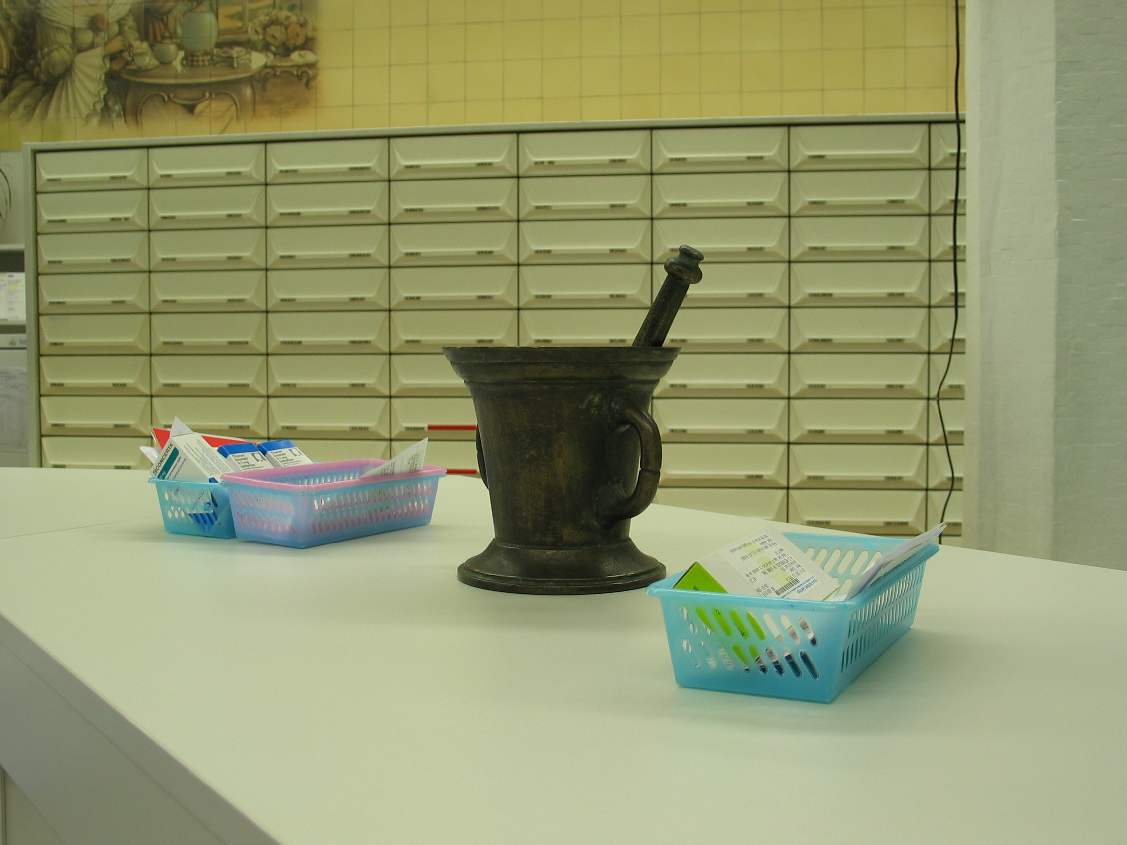 Dutch pharmacy, with the medicin kabinet in the background